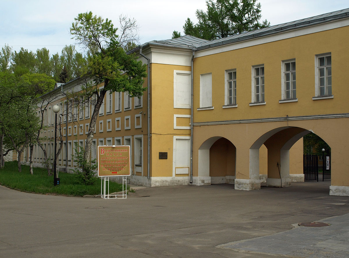 Museum of folk art in Moscow (Delegatskaya Street, 3). Originally the estate of count Andrei Osterman. Eastern wing